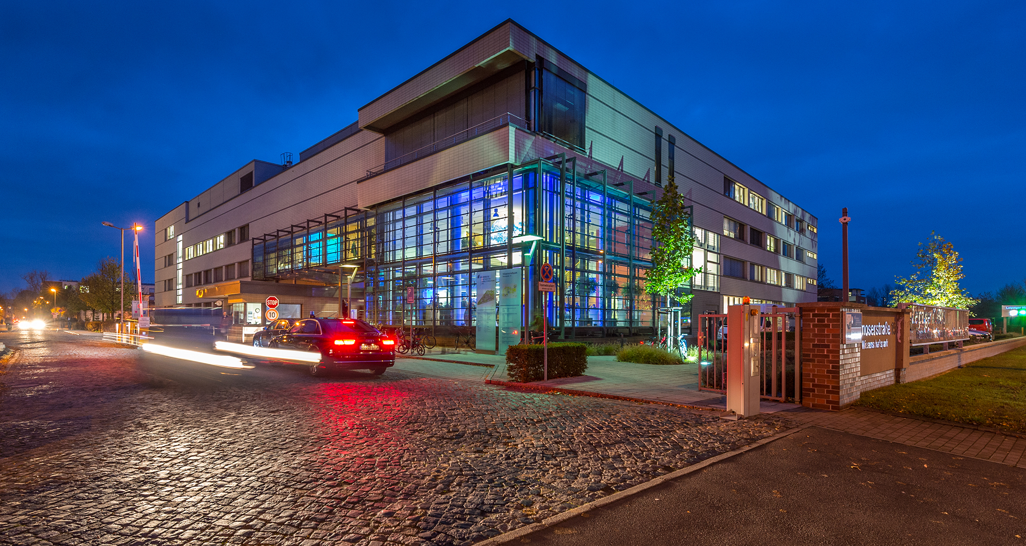 Beschreibung: Jahresempfang des UFZ Datum: 17.11.2014 Ort:Leipzig, UFZ Personen